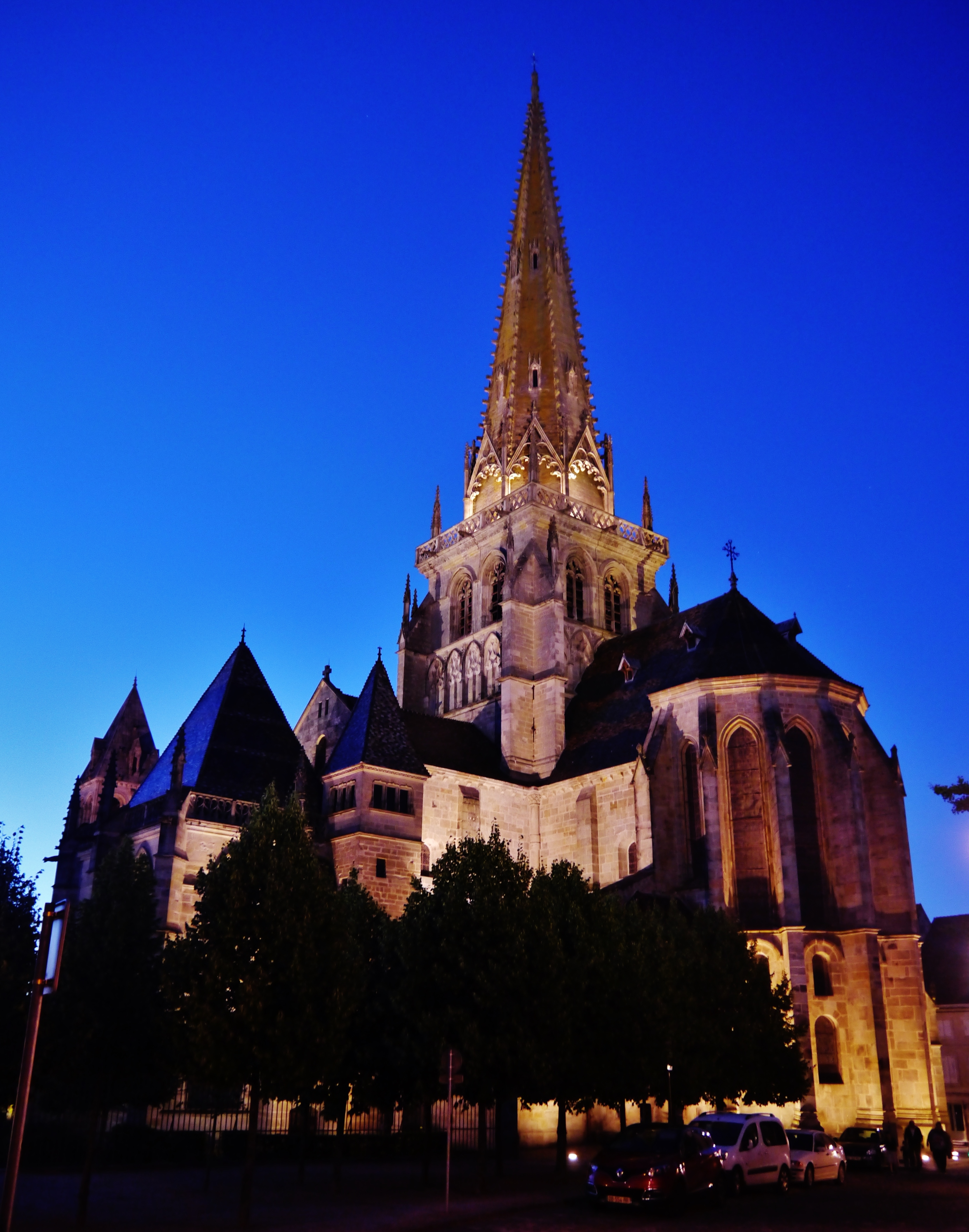 Cathedral of St. Lazarus at Night, Autun, Département of Saône-et-Loire, Region of Burgundy (now Burgundy-Frache-Comté), France